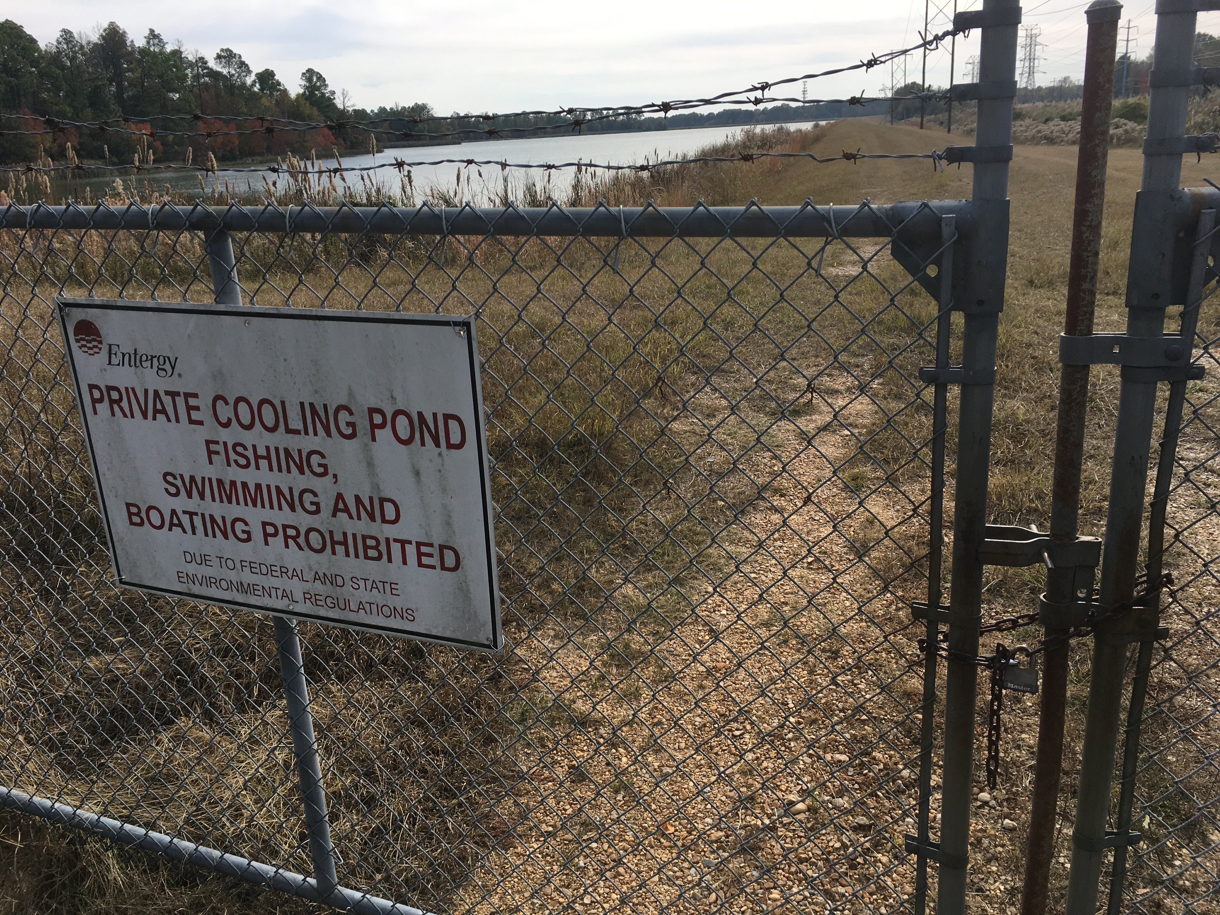 Lake Hico from its northwest corner.